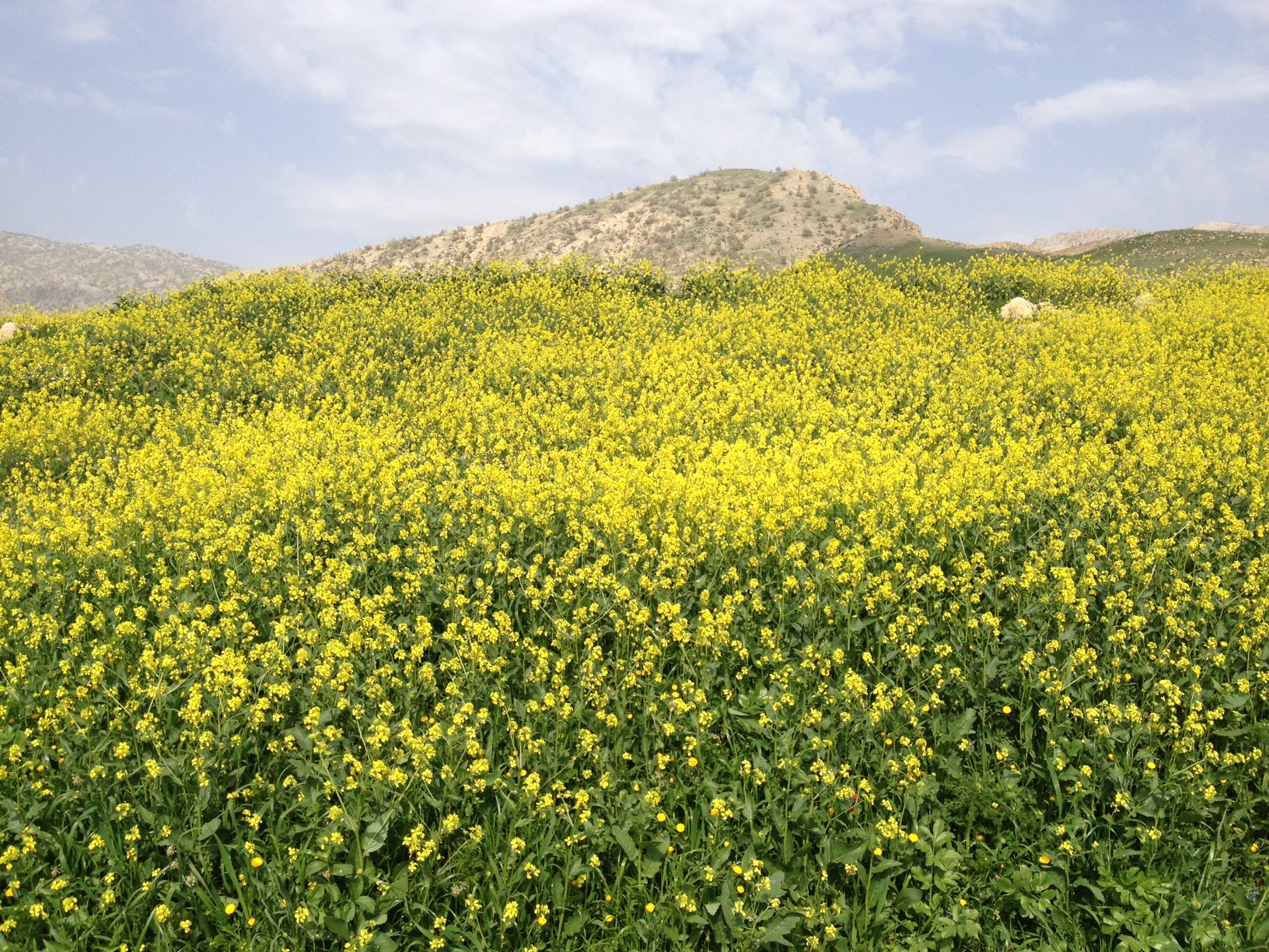 Flowering plants (species?) on a field (?), Bowli area, Ilam province of Persia (Iran) - 2014